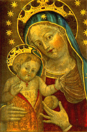 Art work by St. Catherine of Bologna (Maria und das Jesuskind mit Frucht)